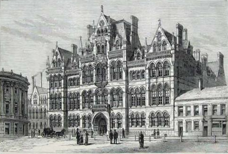 Mason Science College, Edmund Street, Birmingham. On the site of the current Central Library.